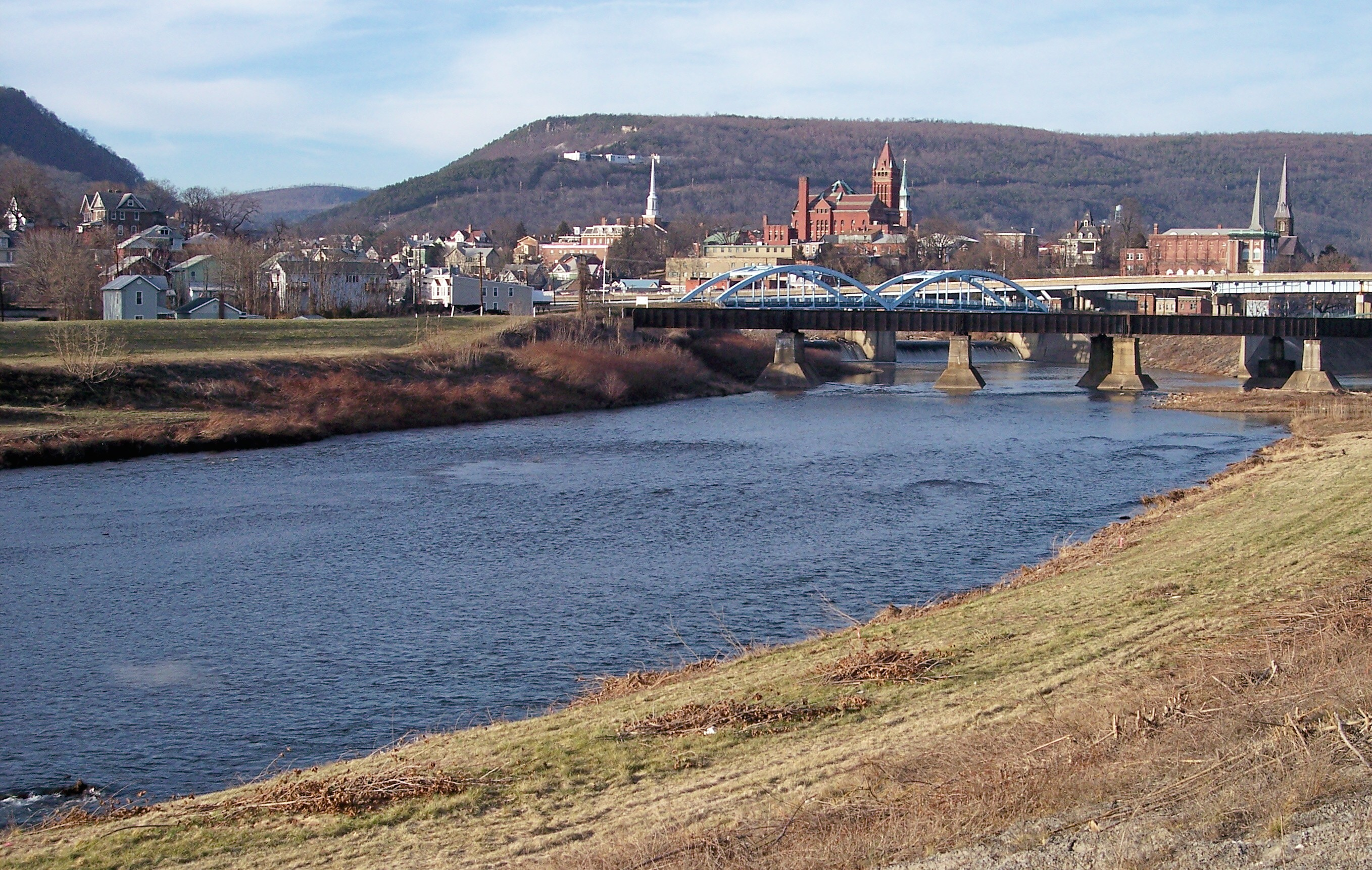 The North Branch Potomac River between Cumberland, Maryland (foreground/right) and Ridgeley, West Virginia.